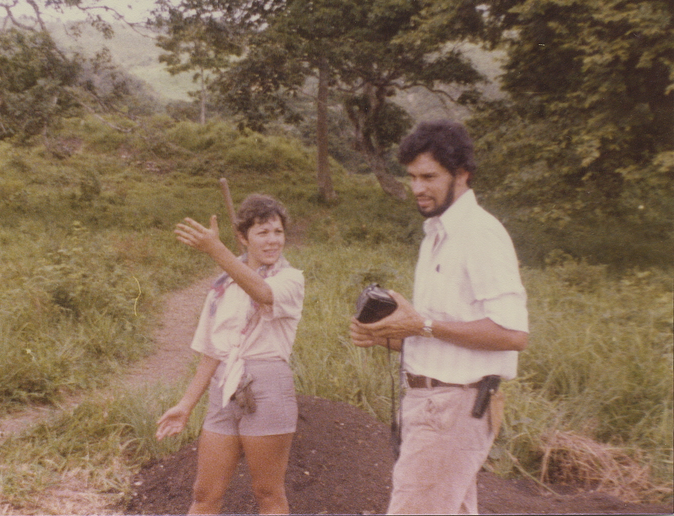 Elena Cros and archaeologist Ricardo Agurcia (right) at dig at site of Siboney Calabazas, Honduras.